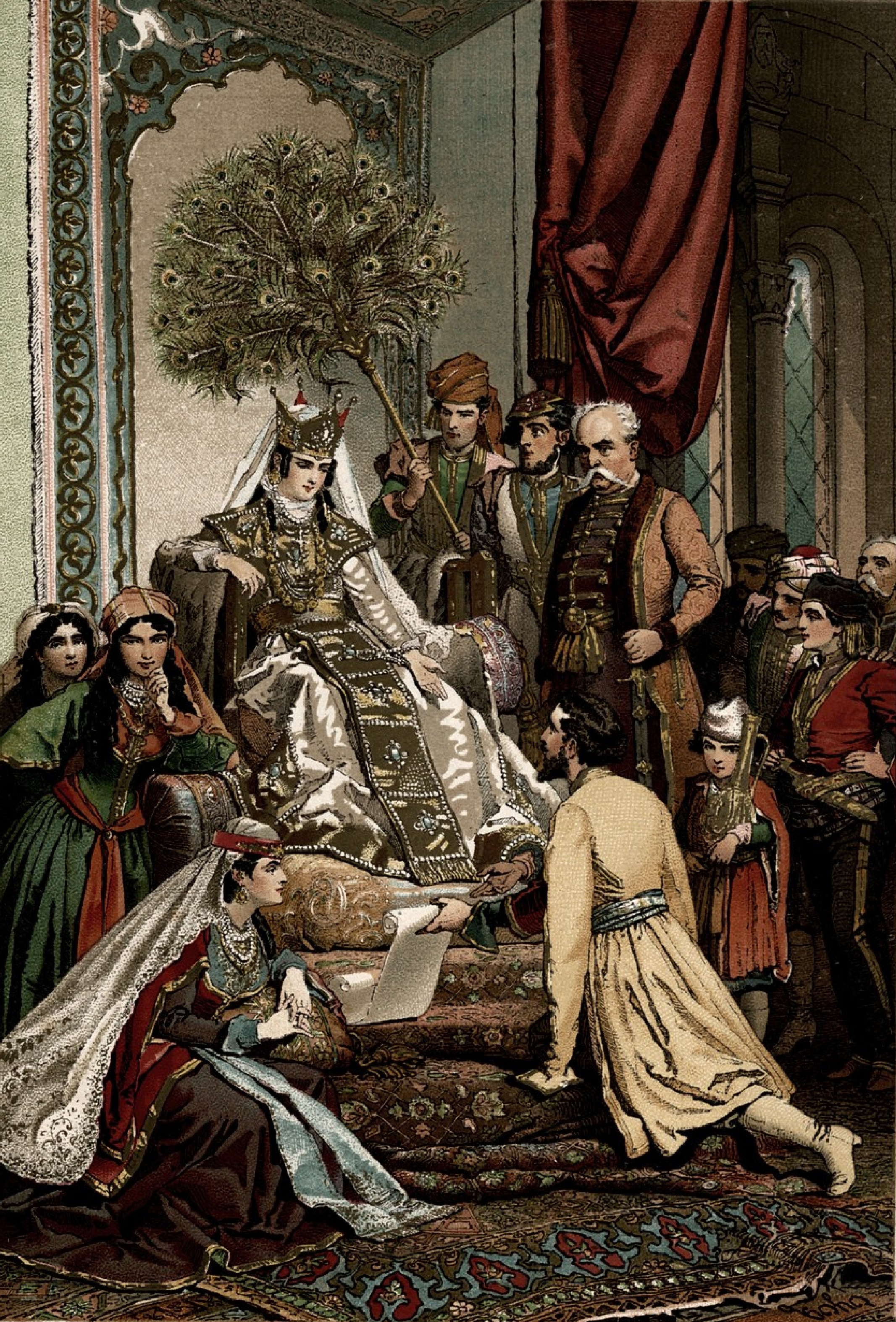 An illustration to the medieval Georgian epic poem Vep'xistq'aosani ("The Knight in the Panther's Skin") by the Hungarian artist Mihály Zichy (photozincography by Angerer in Vienna and color chromolithography by Breze). Scanned from the 1888 Georgian edition of the poem by the National Parliamentary Library of Georgia.